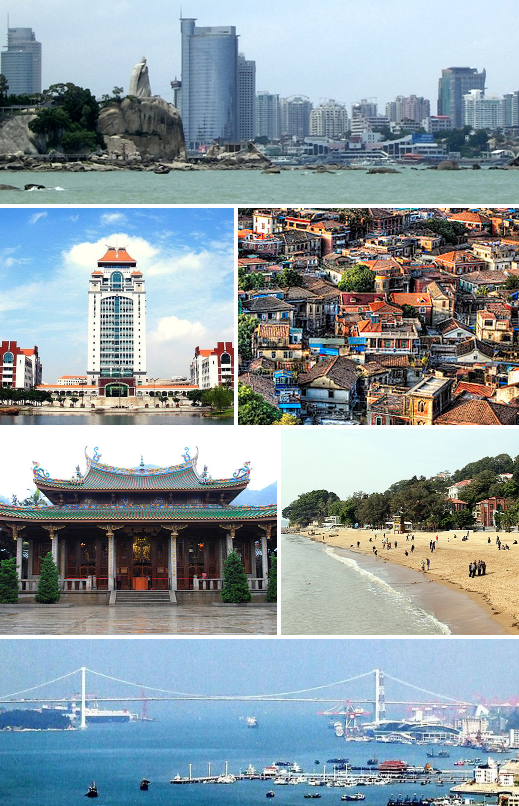 Montage of various Xiamen images